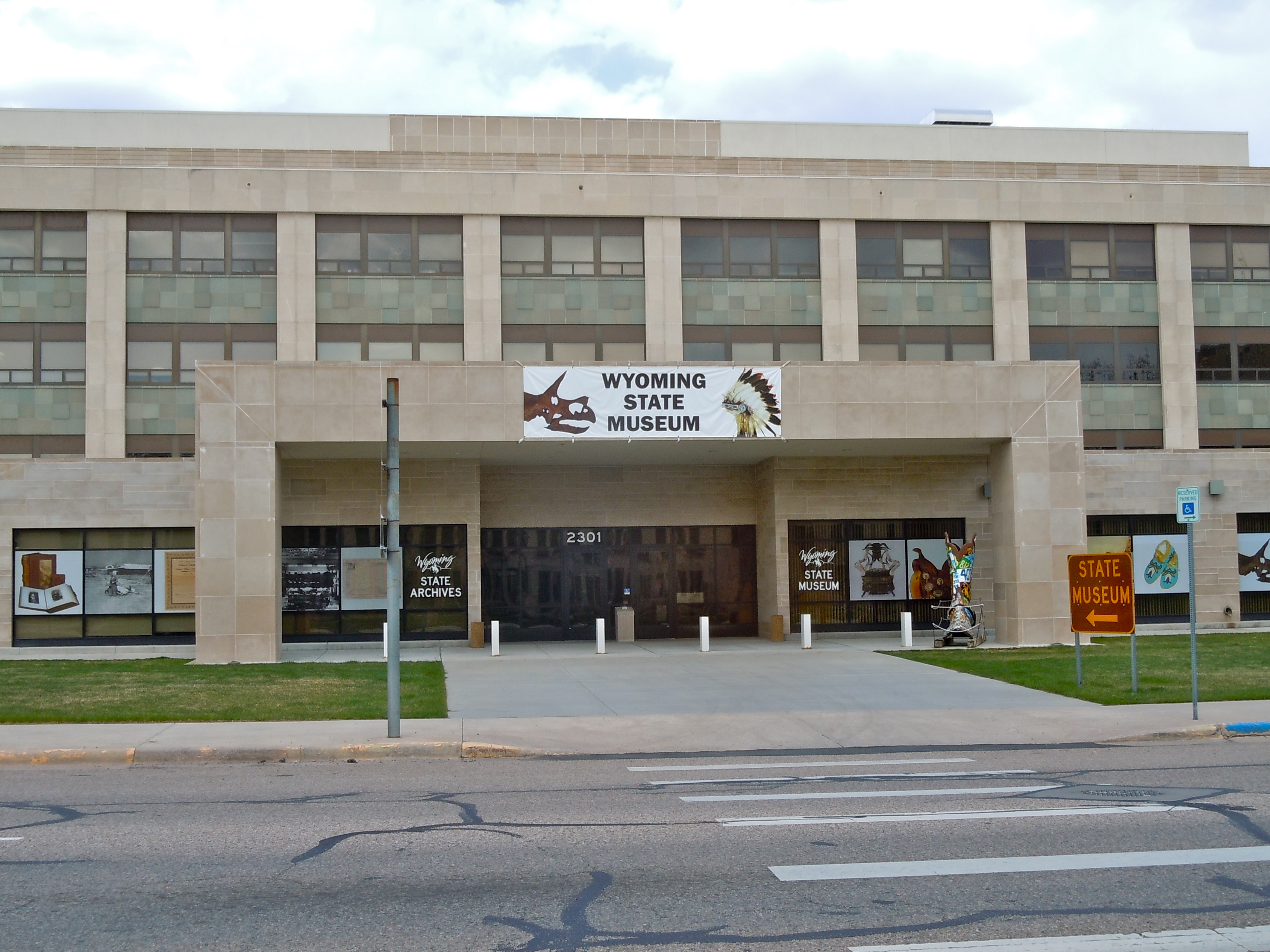 Official Wyoming State Museum, near the State Capitol in Cheyenne, WY